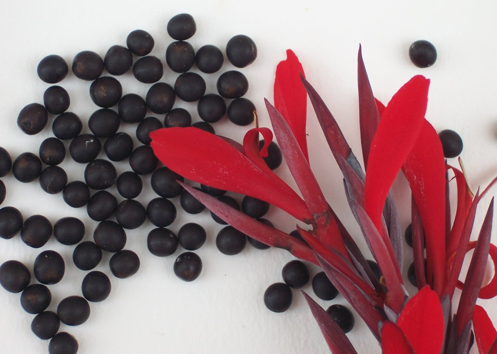 Canna indica (seeds) Photo: B.Navez - 27 NOV 2005 - Réunion Island